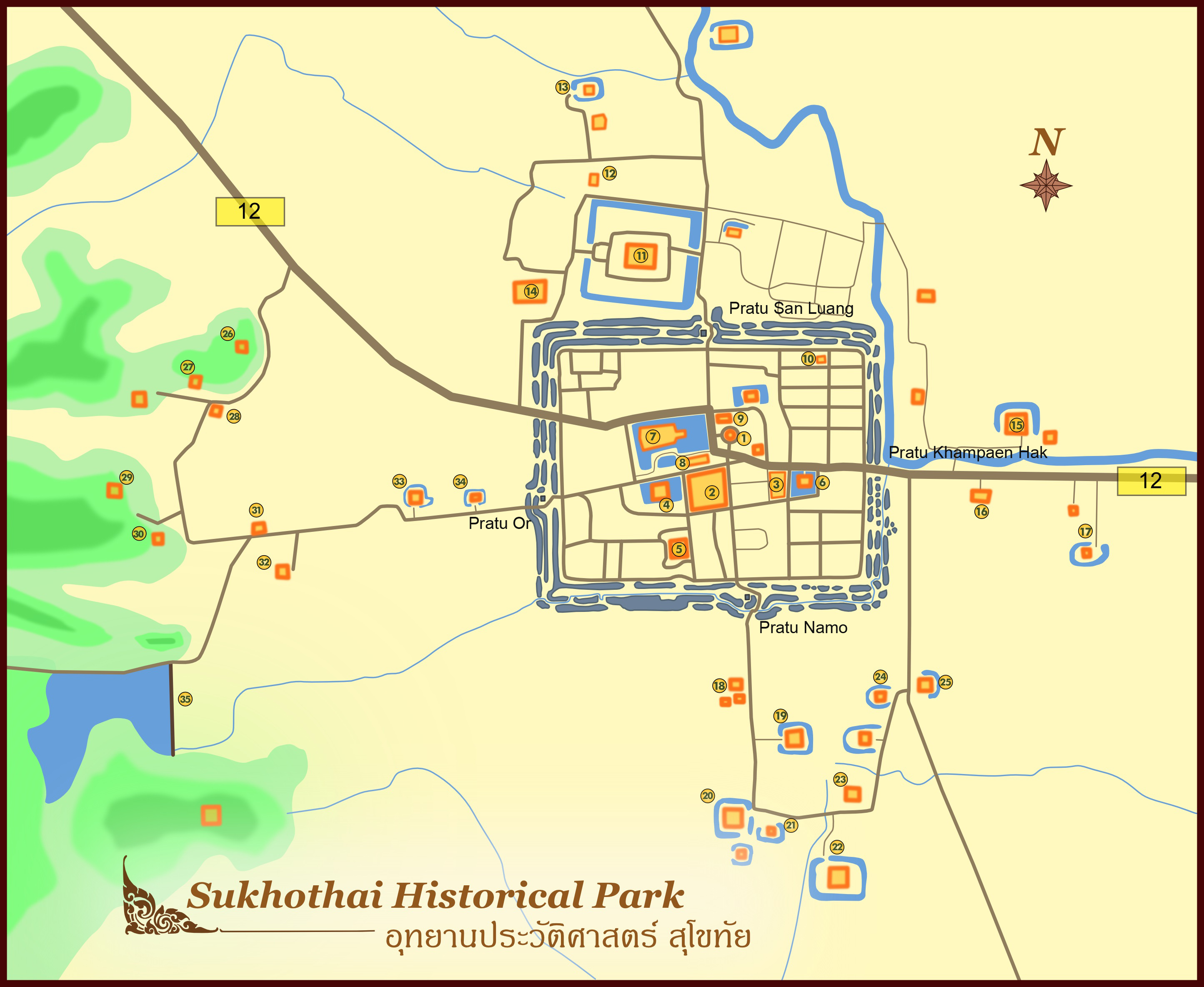 Gates of ancient Sukhothai's city fortification